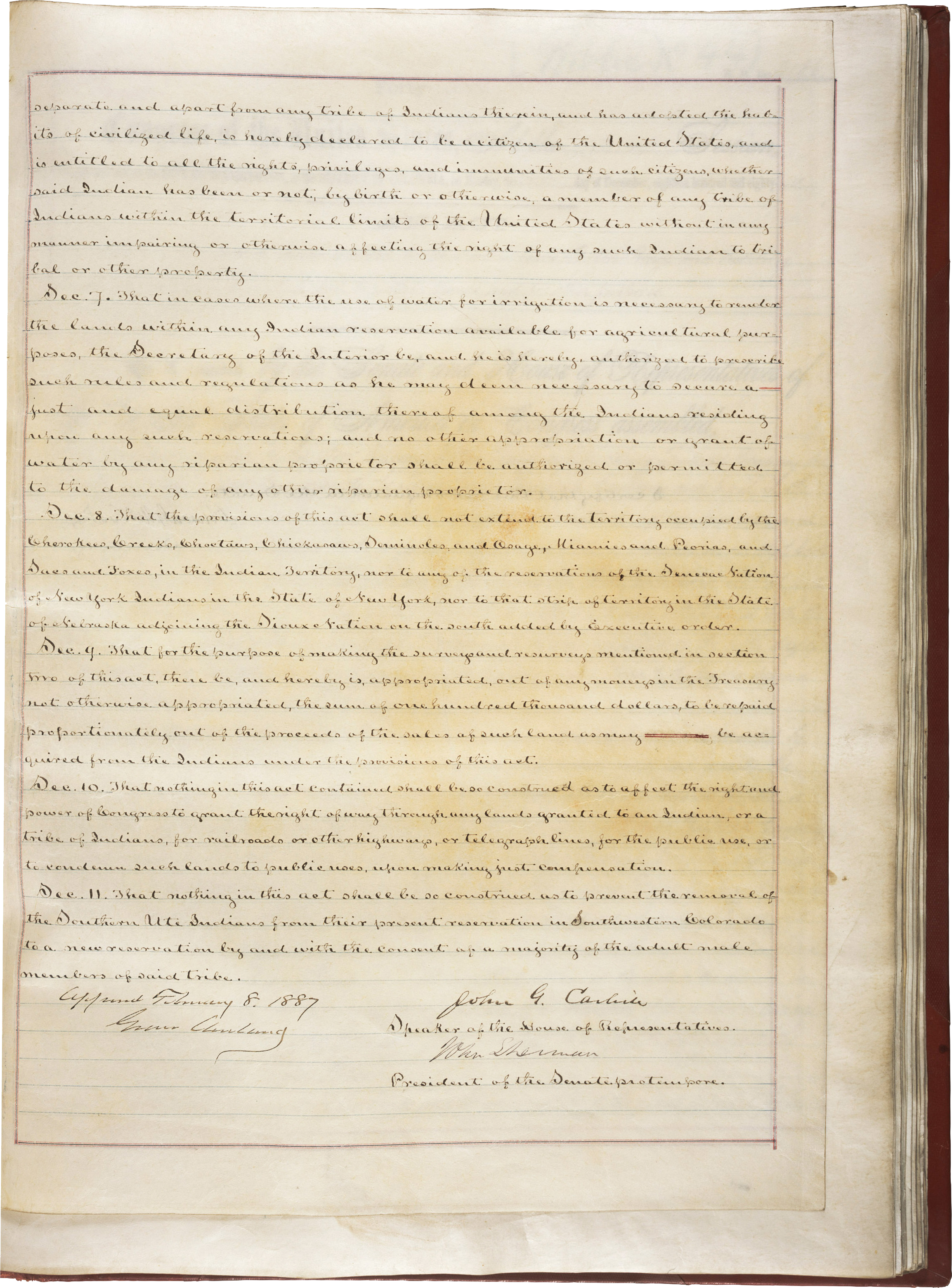 The last page of the Dawes Act.